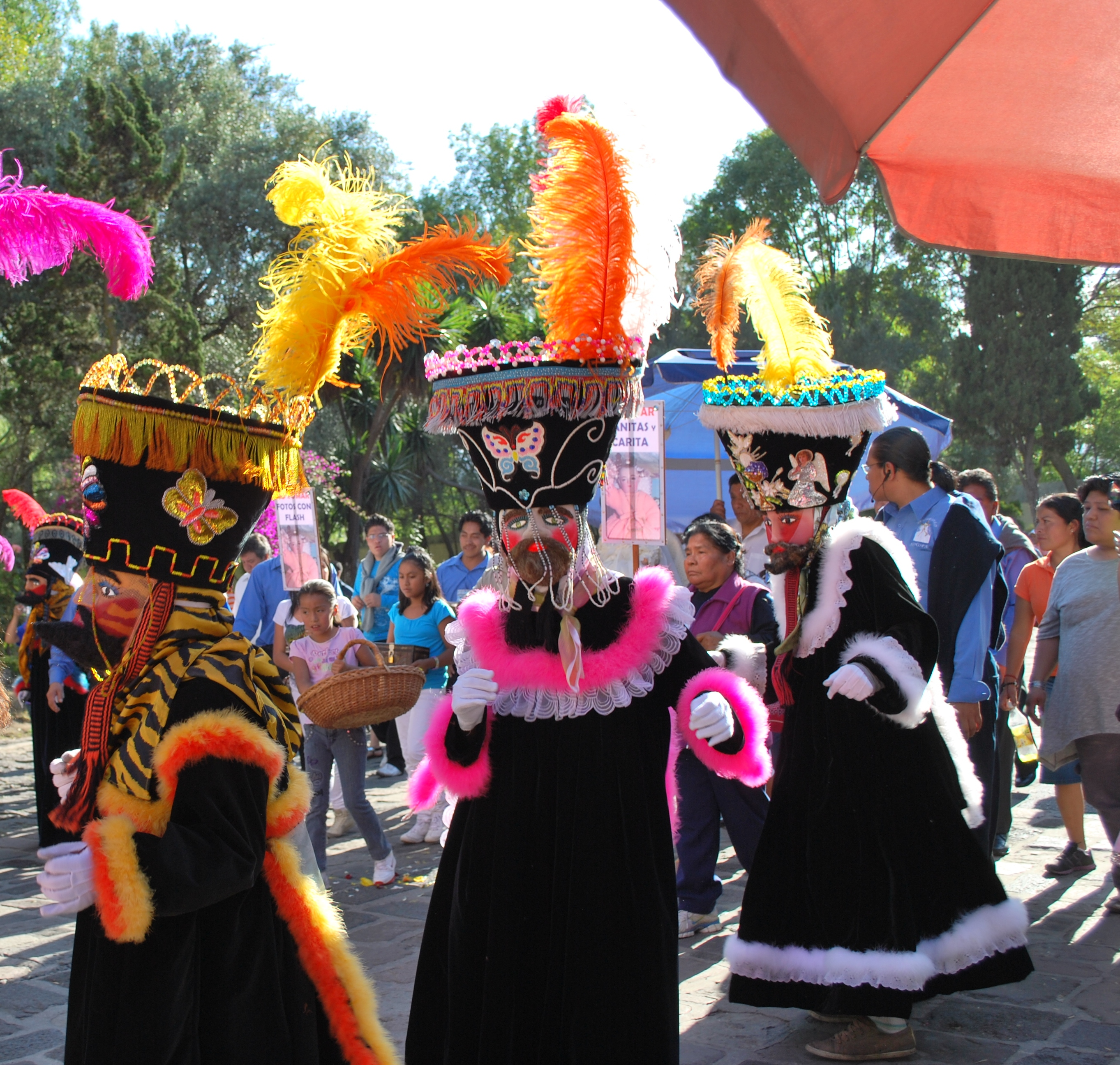 Chinelos in the atrium of San Bernadino in Xochimilco at end of procession of the Niñopa